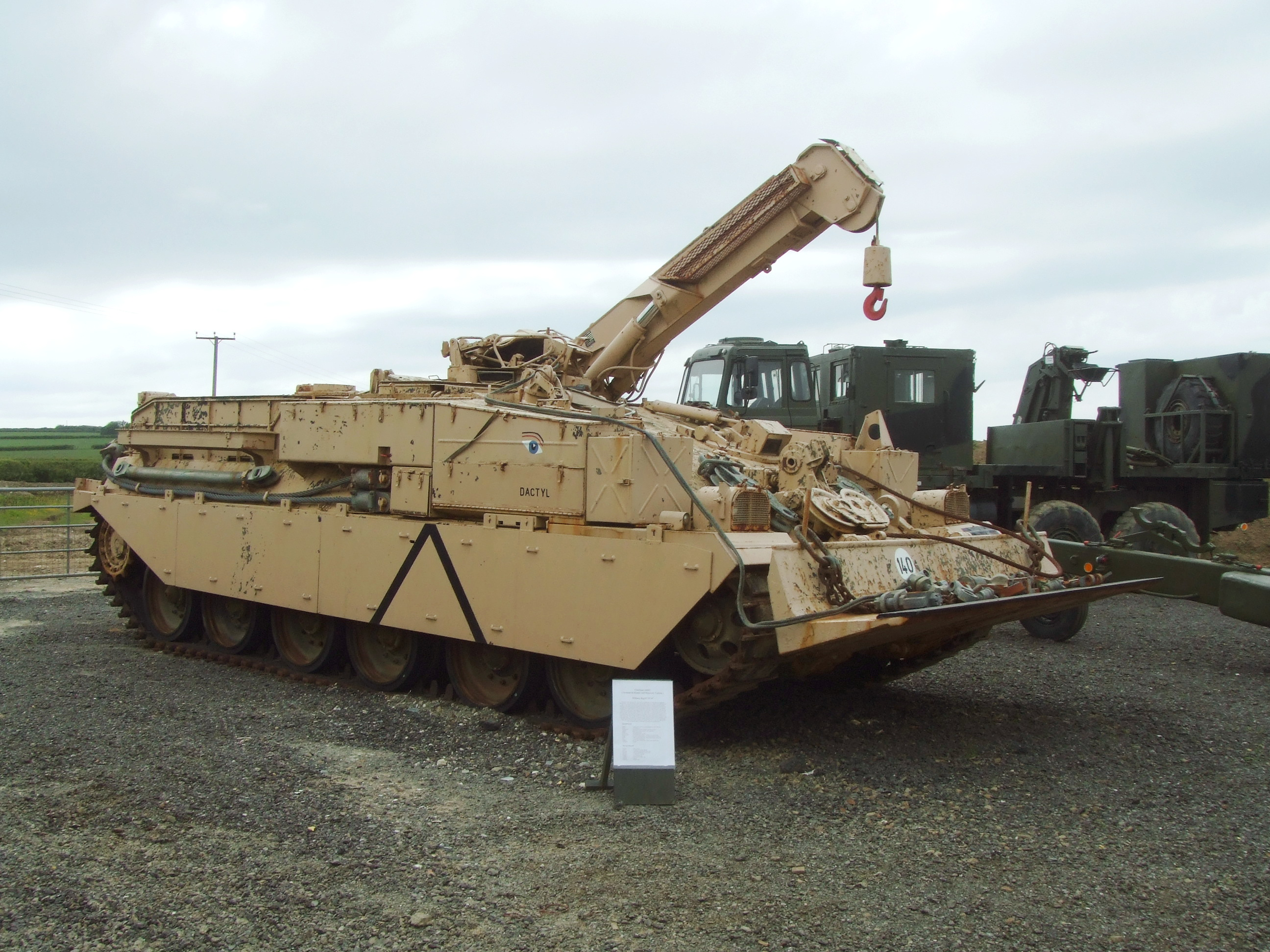 Vickers Fv 4204 Chieftain ARRV Tand Recovery Vehicle, built 1976, and which was used in the First Gulf War. At the North Cornwall Tank Collection, Dinscott, 05/07.